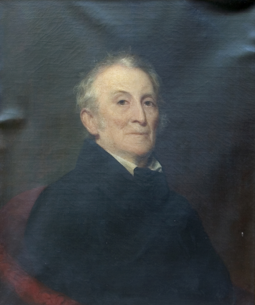 TRUMBULL, JOHN (1756-1843) Artist: Frothingham, James (1786-1864) Medium: Oil on canvas